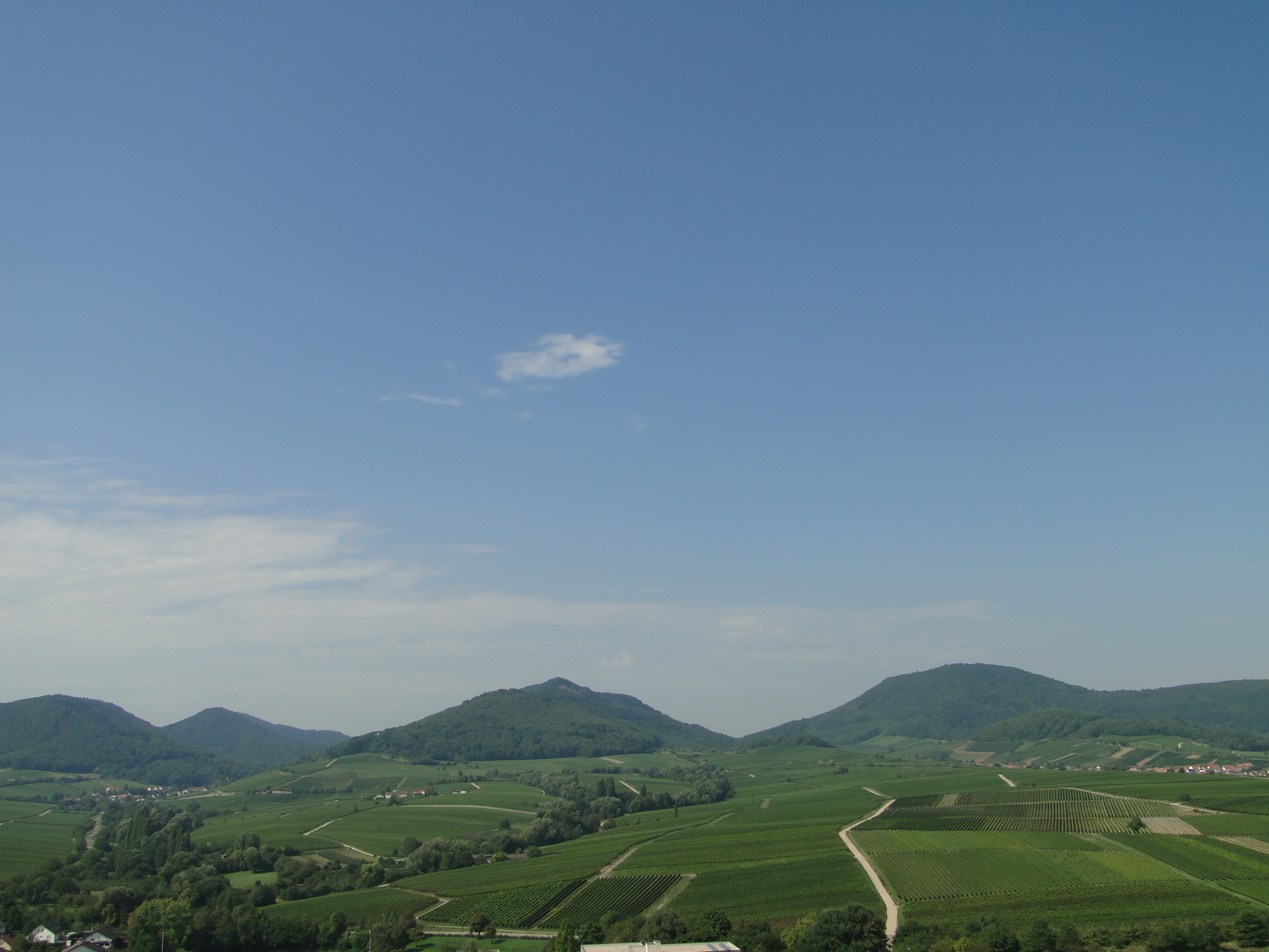 South Palatinate landscape near Leinsweiler